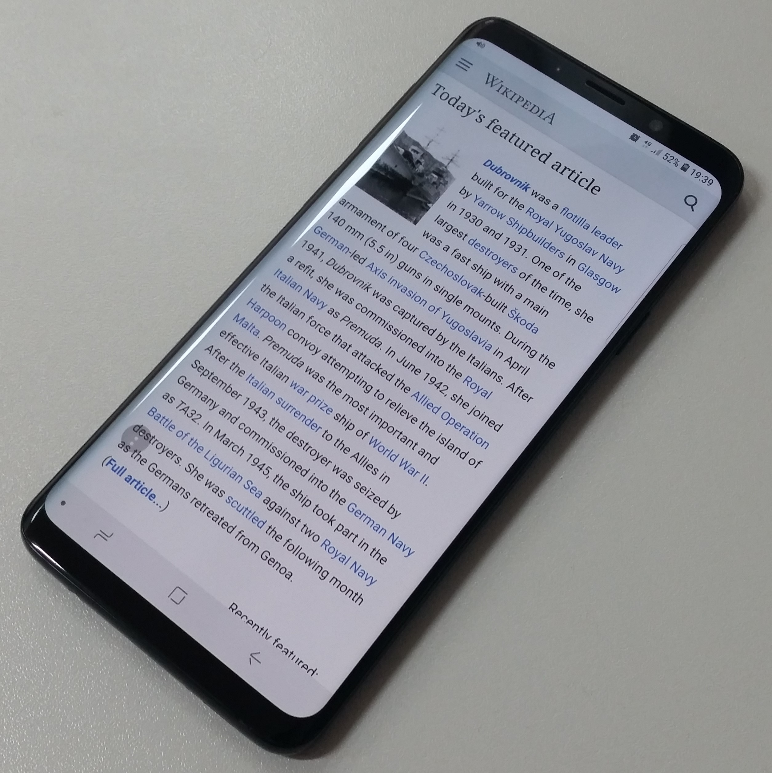 Samsung Galaxy S9+ showing Wikipedia main page with a standard browser.